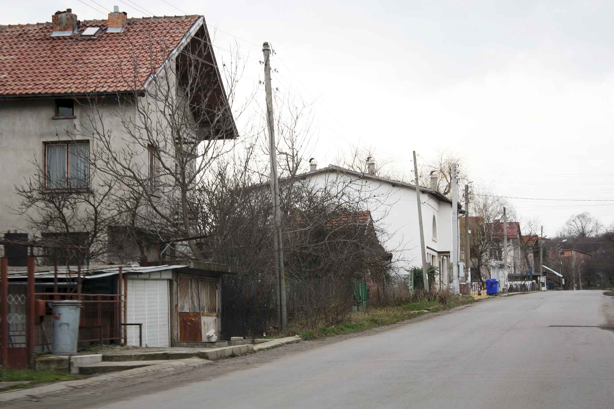 Gurmazovo main street